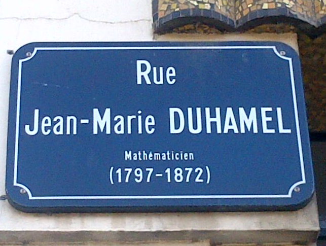 Rue Jean-Marie Duhamel, street in Rennes, Brittany, France